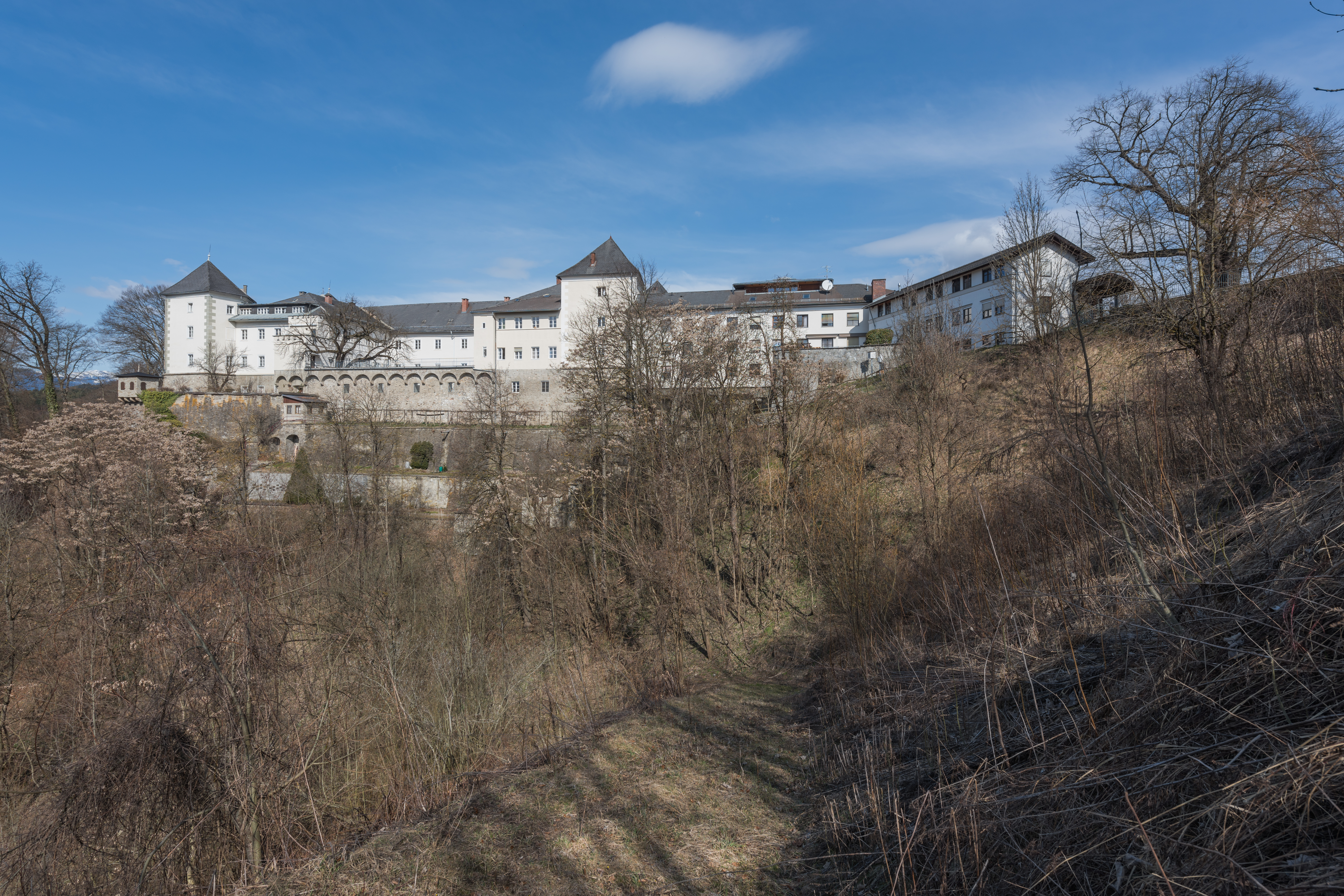 Former castle and monastery Wernberg on Klosterweg #2, municipality Wernberg, district Villach Land, Carinthia, Austria, EU